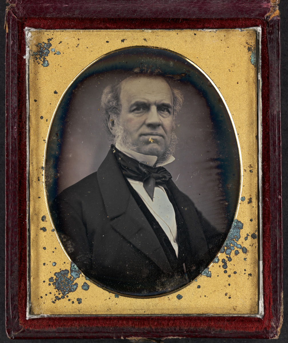 BPLDC no.: 07_05_000020 Call no.: Cab.G.3.28 Title: James Haughton Creator: Date: 1846 (approximate) Publisher: Dublin? Extent: 1 photograph : ninth plate daguerreotype ; in case 7.5 x 6 cm. Genre: Daguerreotypes; Portraits Notes: Subjects: Haughton, James, 1795-1873 BPL Department: Rare Books Department